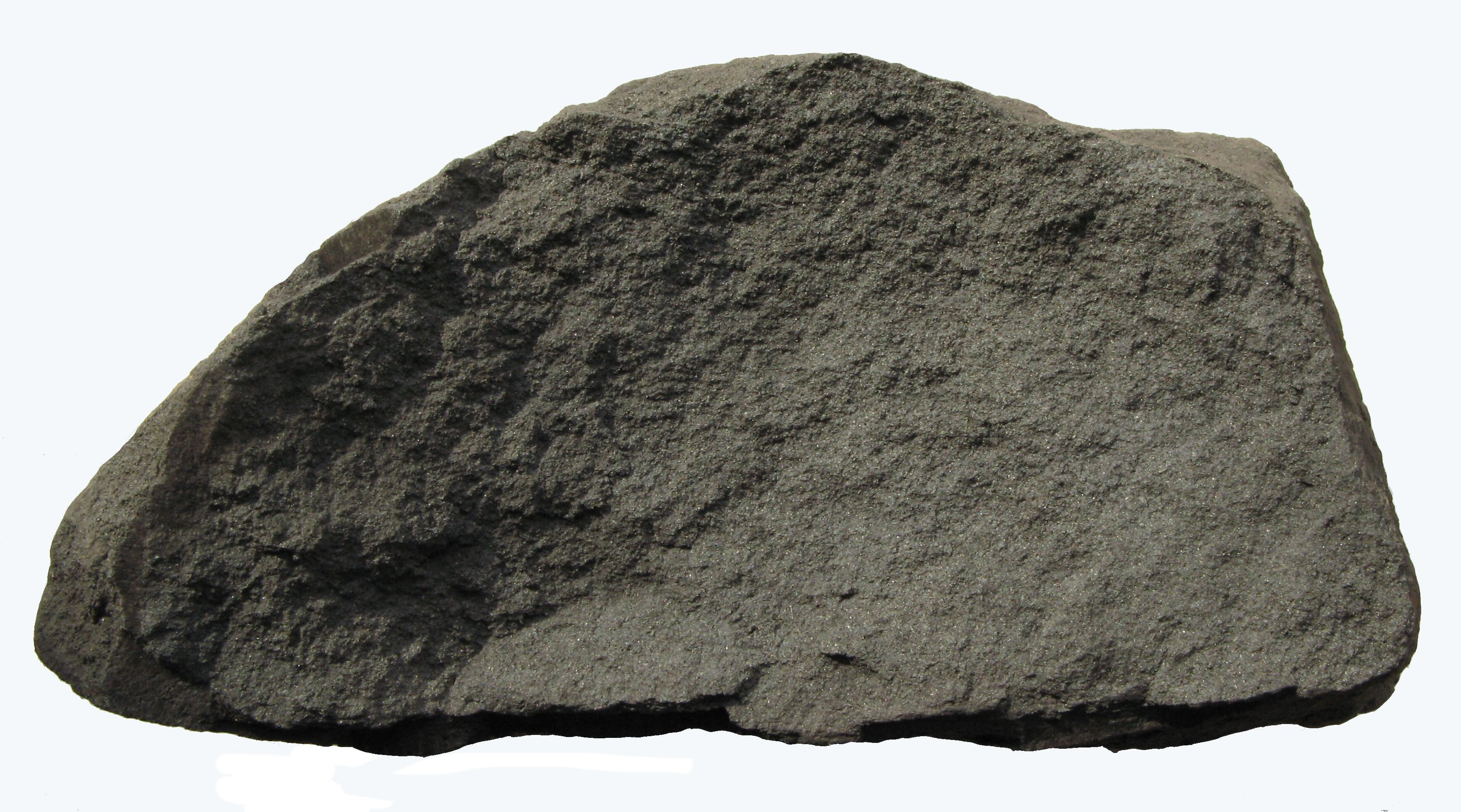 Maghemite Locality: Gara Djebilet, Algeria, North Africa Exposed in the Mineralogical Museum of University Bonn, Germany